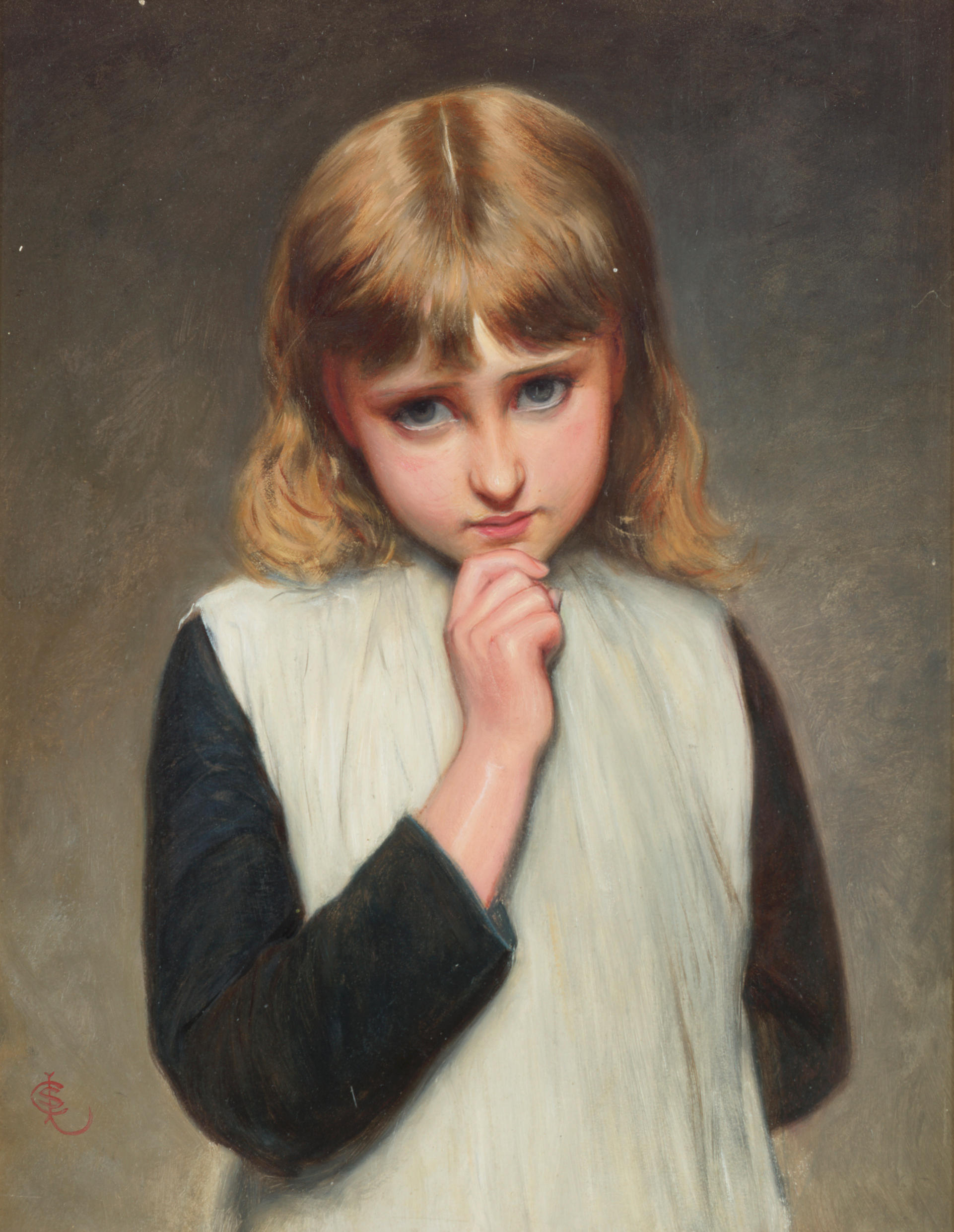 A pensive moment. Signed with monogram. Oil on card. 43 x 33.5 cm